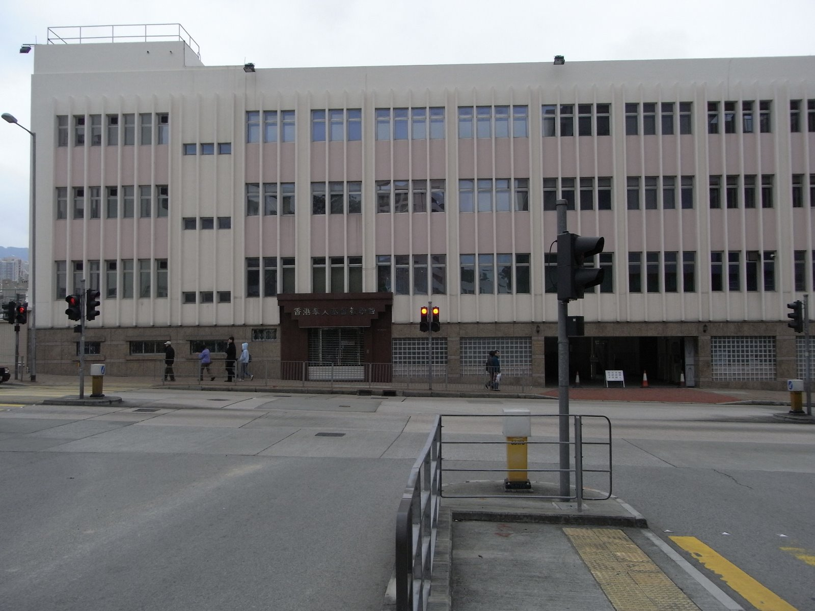 九龍城延文禮士道 望zh:聯合道 香港華人基督教聯會大樓